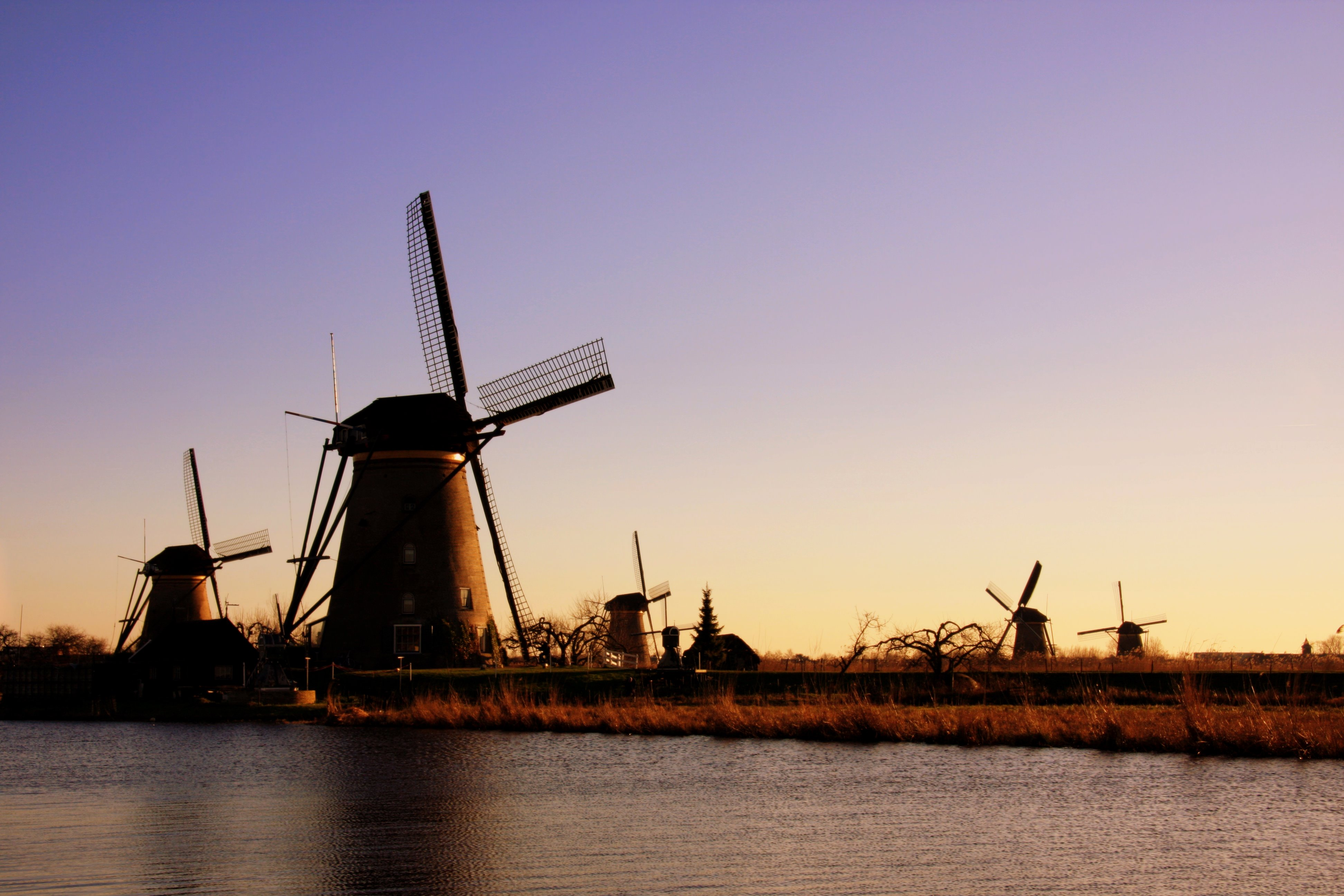 Sunset at Kinderdijk, The Netherlands